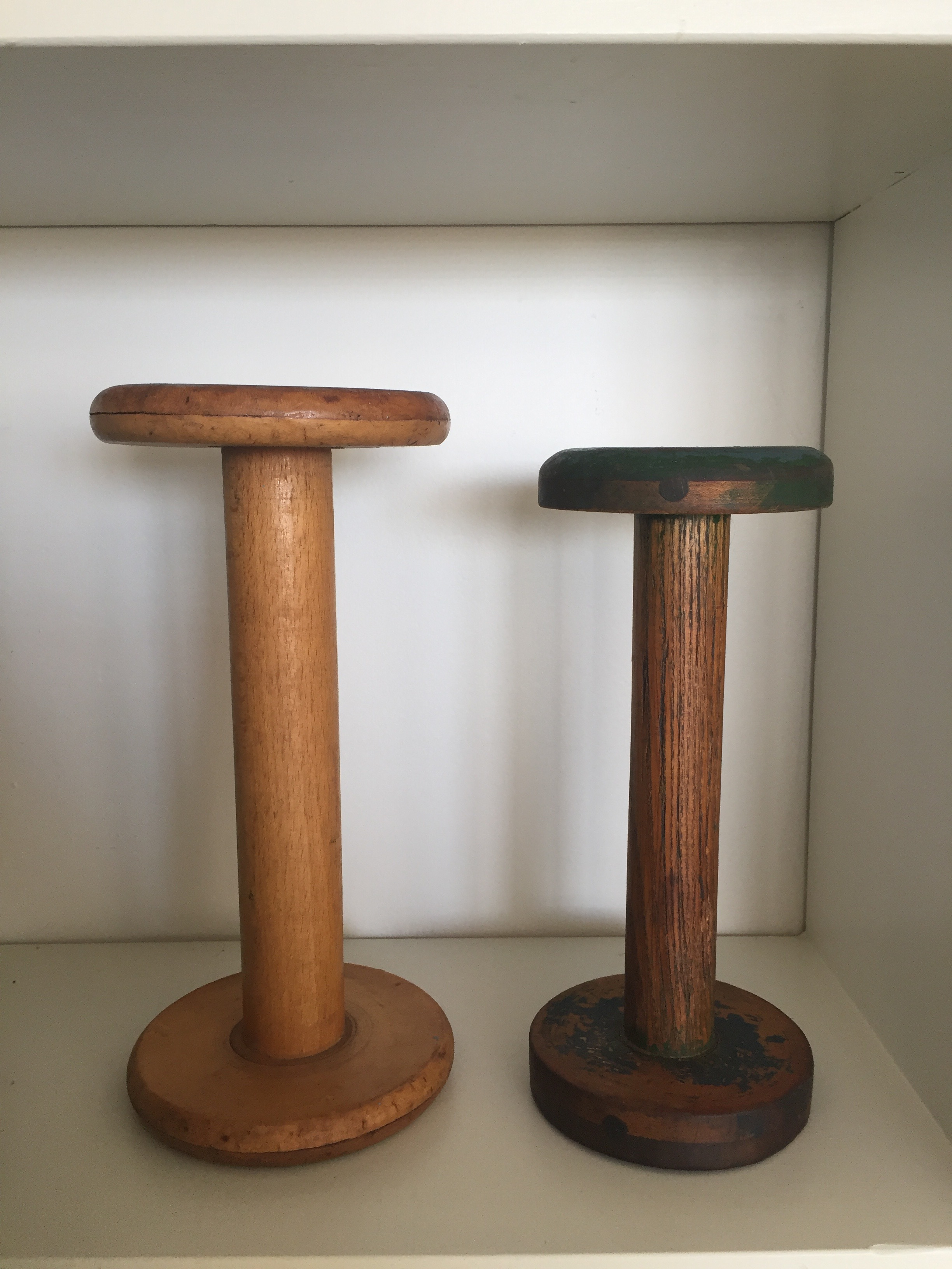 A vintage wooden drawing bobbin 16" x 9" currently used as decor